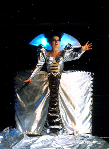 Zdzisława Donat, Czarodziejski flet